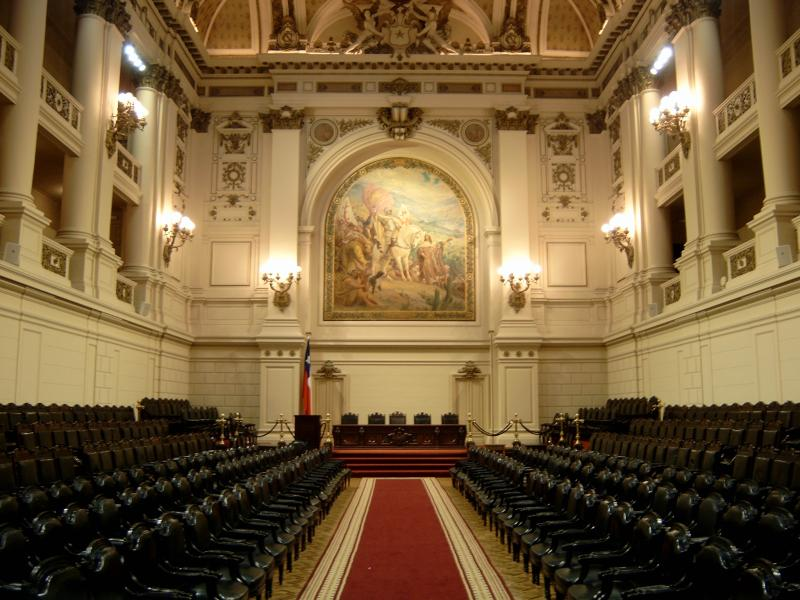 Former Chamber of Congress, Palace of Ex-congress, Santiago Chile, taken 25/05/2004 by User:zootalures (Owen Cliffe) Take during the EULAT e-Government and e-Democracy meeting in Santiago 24-27 May 2004.